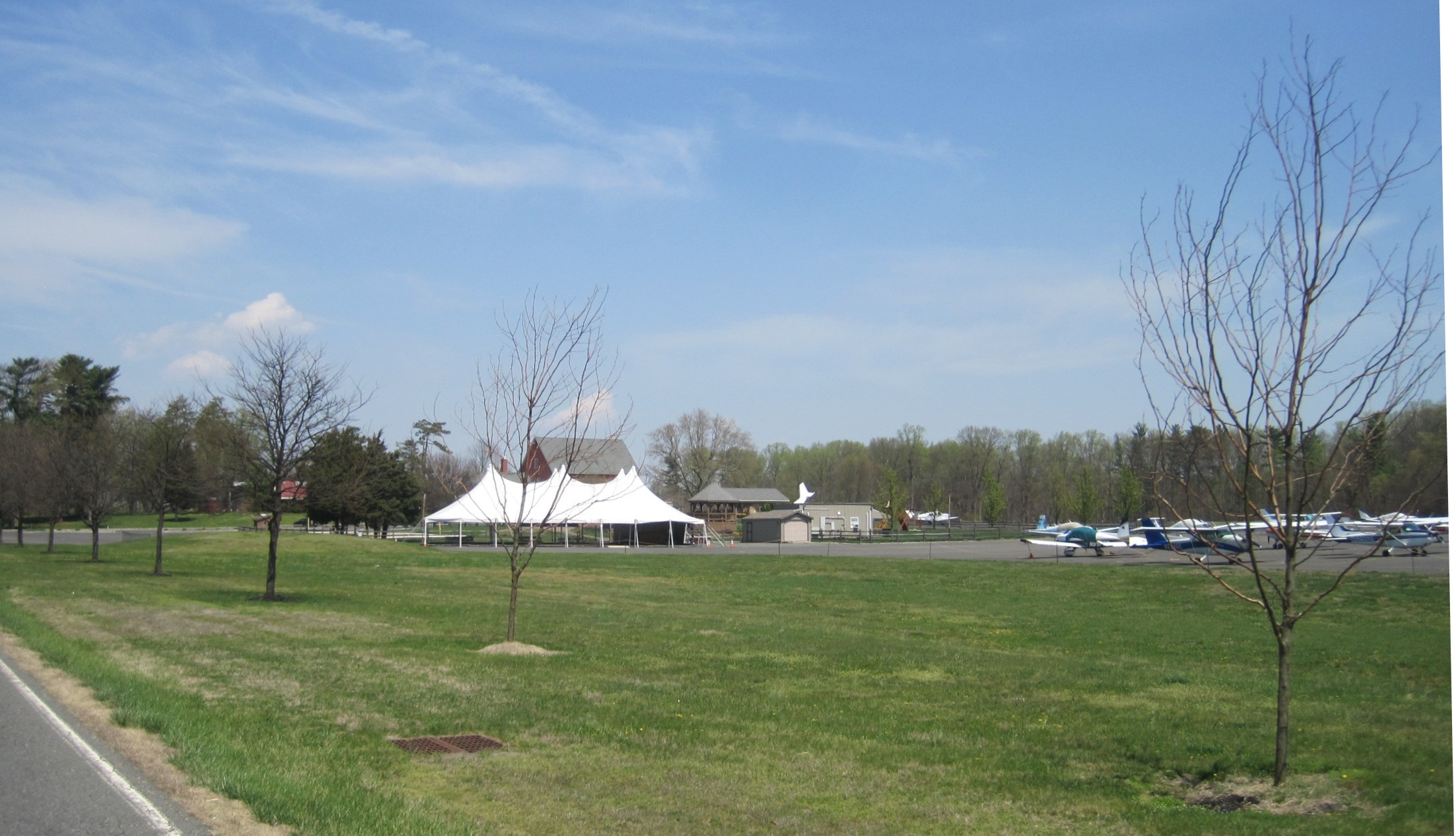 Photo showing the front of the Flying W Airport in Lumberton and Medford townships, Burlington County, New Jersey. Photo taken looking from Fostertown Road looking towards the airport's restaurant/motel complex.